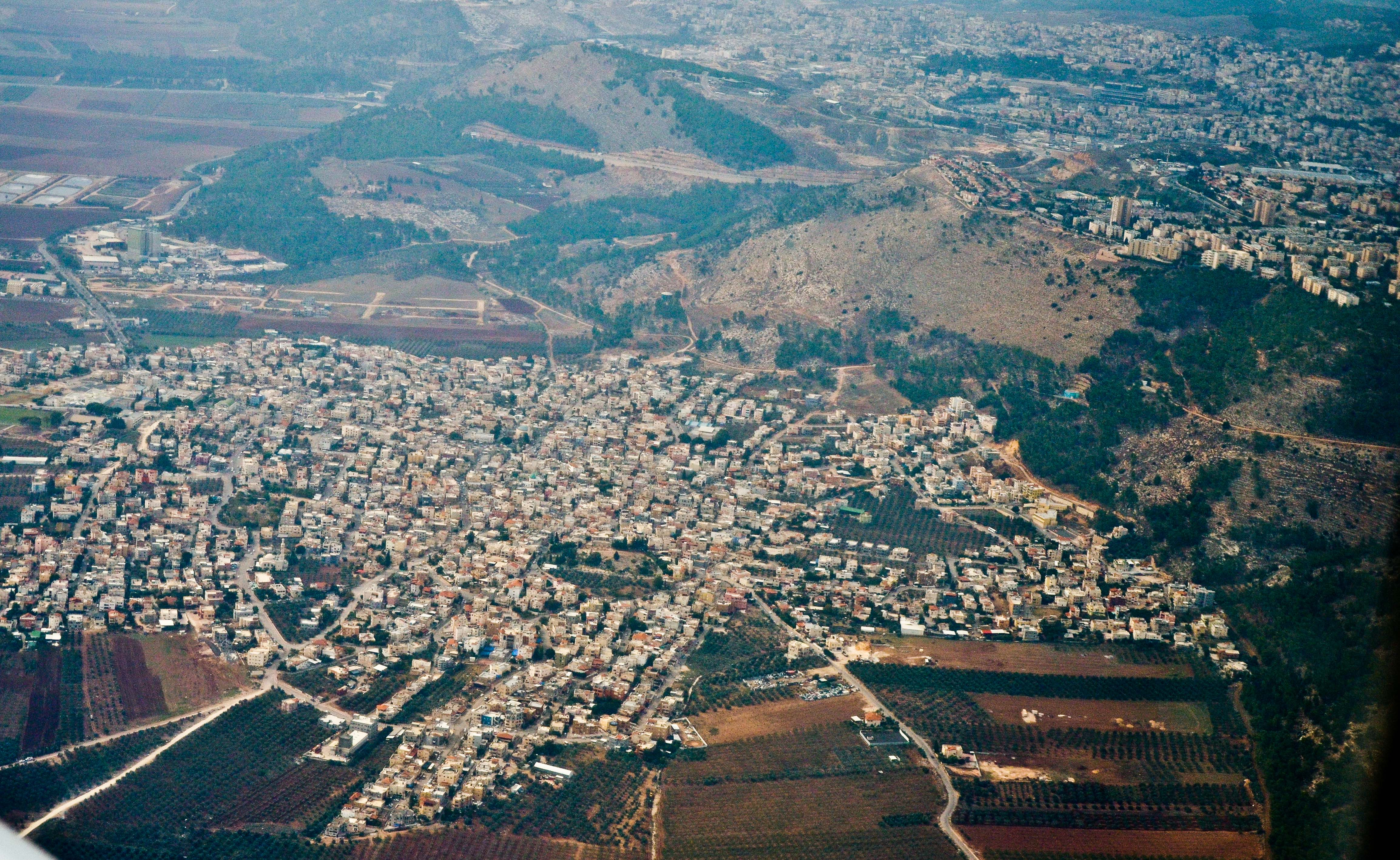 Shot taken from plane flown by Ilan Maytal